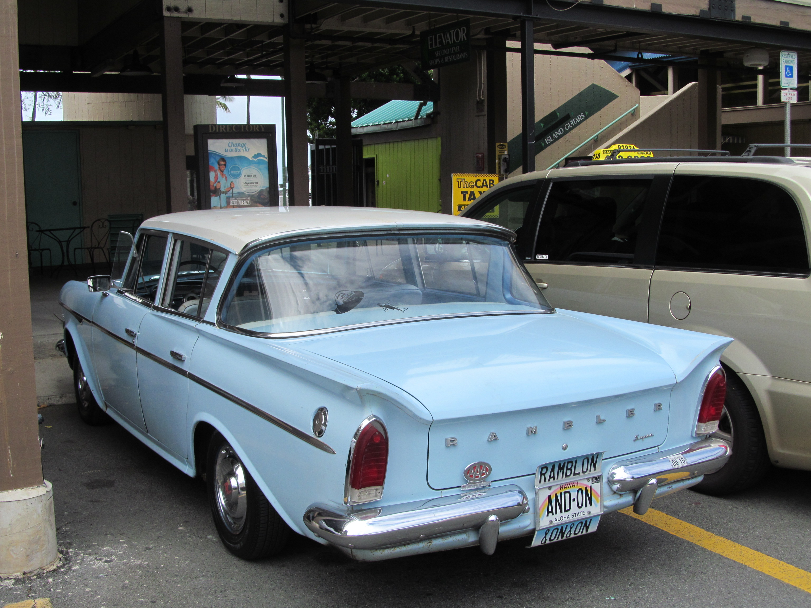 In fantastic condition, obviously someone's pride and joy.